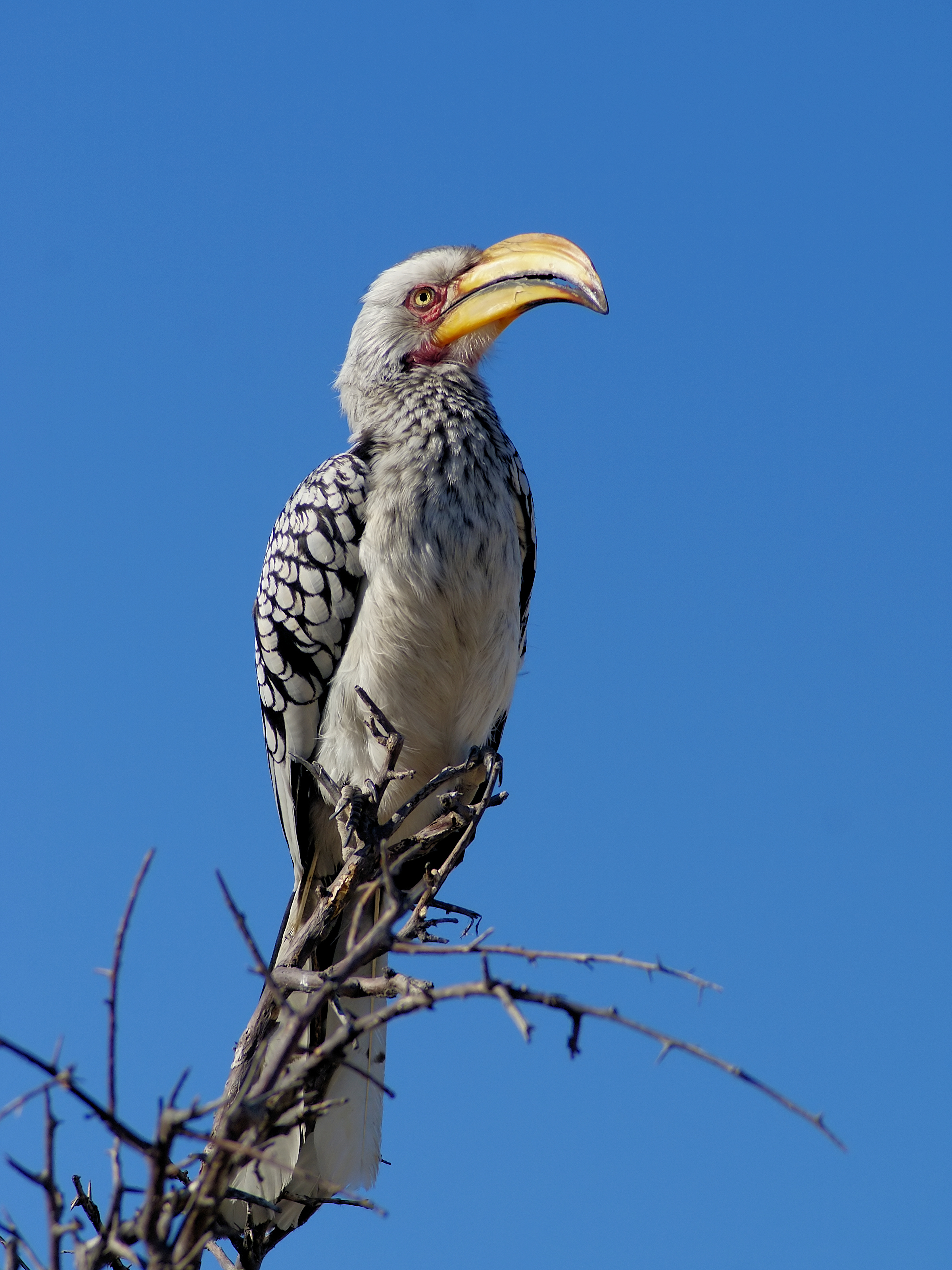 A Southern Yellow-billed Hornbill near Groot Okevi, in the eastern part of Etosha National Park, Namibia.